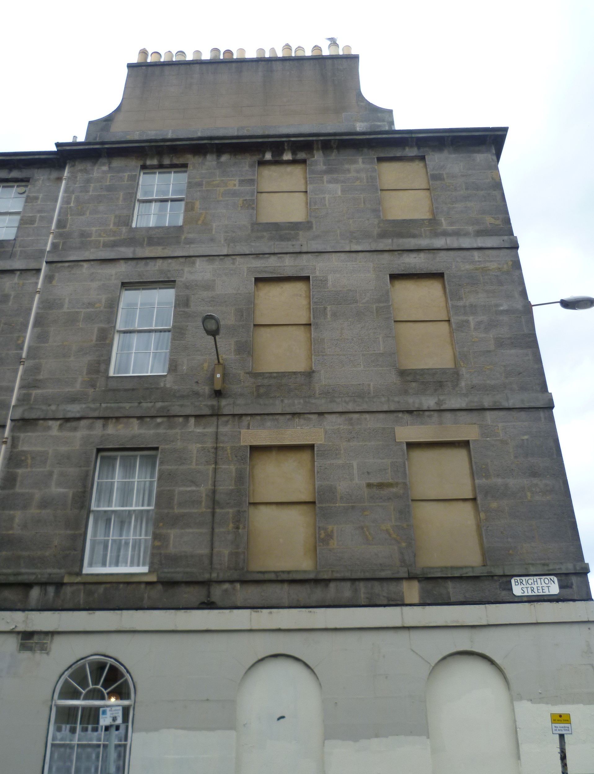 Blocked-up windows resulting from the window tax which was raised several times during the Napoleonic Wars. The original intention would have been to glaze the windows at a later date.